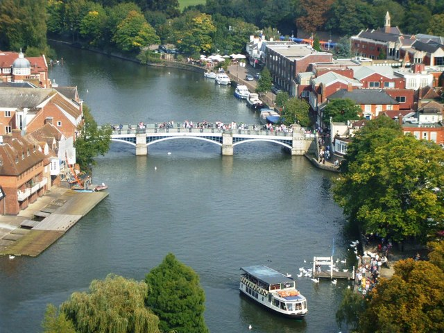 Windsor Bridge Taken from the top of the Royal Windsor Wheel, with one of the pleasure cruises on the right waiting to dock.